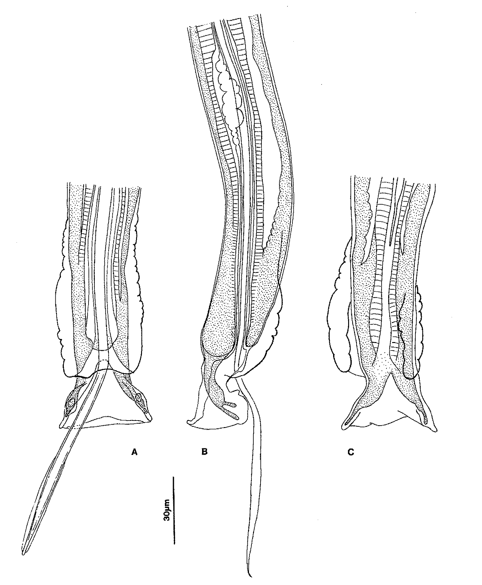 Capillaria chabaudi Justine, 1989 (Nematoda, Capillariinae) Present combination: Aonchotheca (Aonchotheca) chabaudi (Justine, 1989). Posterior extremity of body, caudal bursa and lateral alae. A, holotype, ventral view. B, holotype, lateral view. C, paratype, dorsal view. Similar to Figure 5 in article: Justine, J.-L. 1989: Une nouvelle espèce de Capillaria (Nematoda, Capillariinae) parasite de Chauve-souris (Mammalia, Chiroptera) du Gabon. Bulletin du Muséum national d'Histoire naturelle, Paris, 4° Série, 11 (A), 333-347.